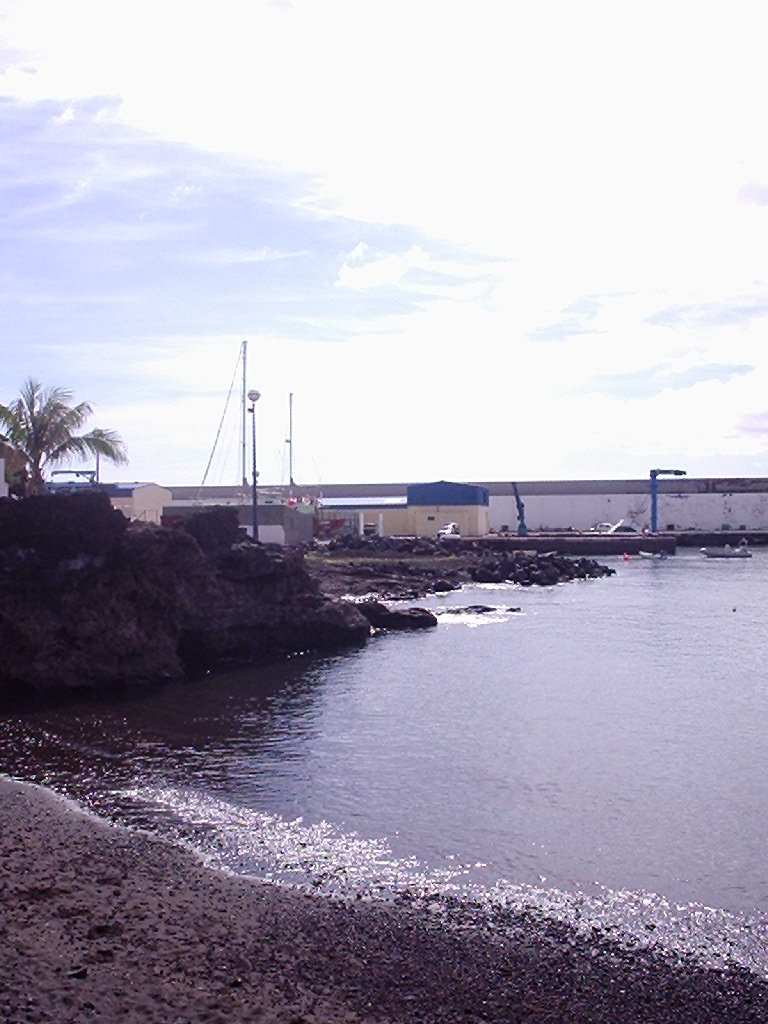 La Restinga Fishing Warf. El Hierro (Spain)